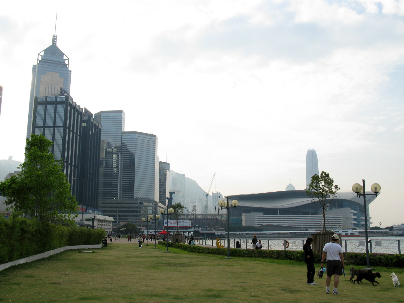 Wan Chai Waterfront Promenade